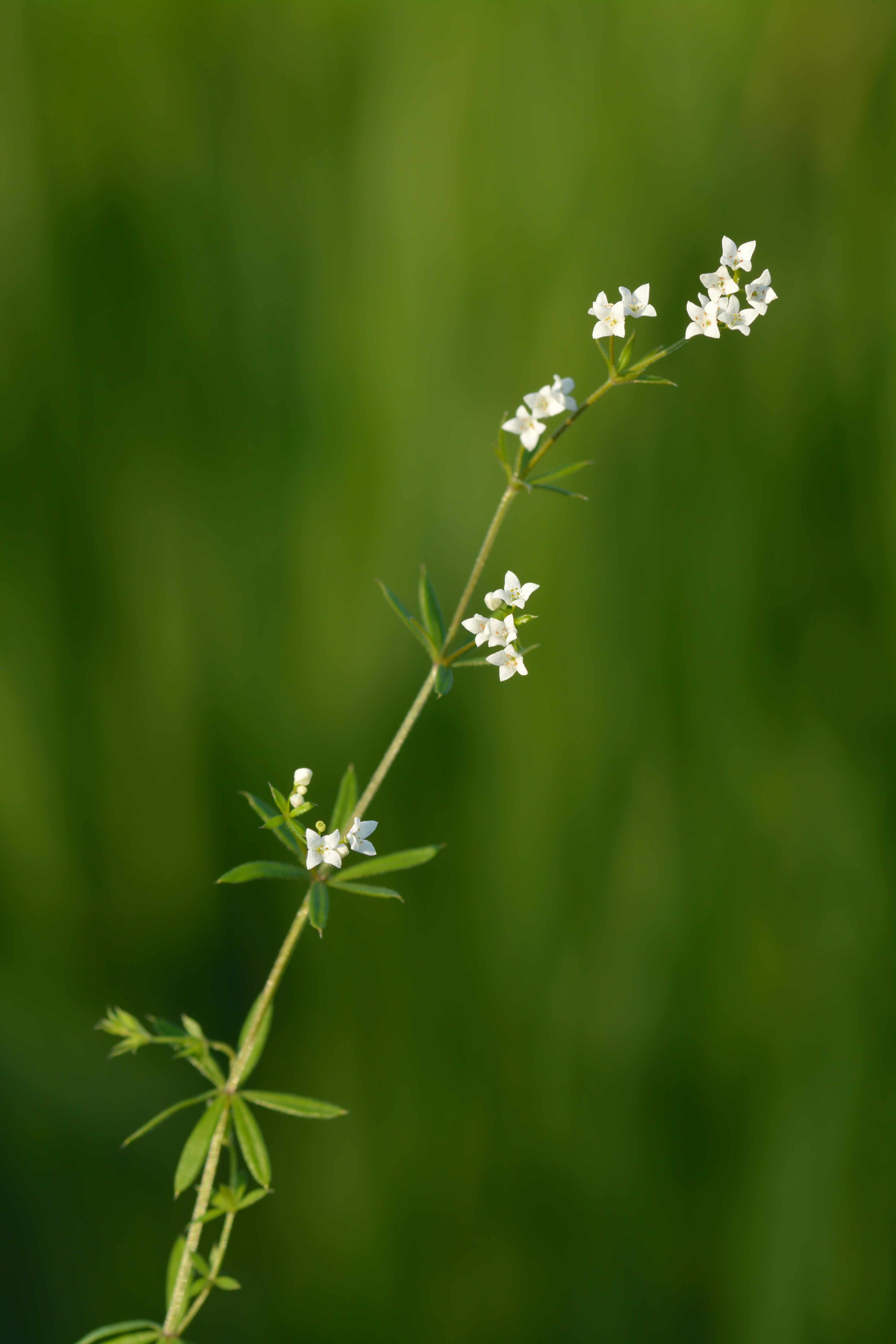 Galium uliginosum - fen bedstraw in Keila, Northwestern Estonia.